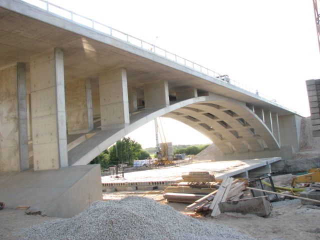 Bridge over Pedja river, near Puurmani, Estonia. Under construction.